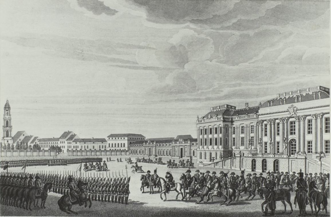 Parade on pleasure garden, city castle Potsdam on the right side, Germany